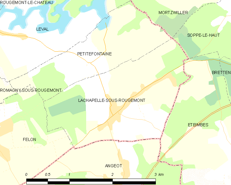 Map of French municipality Lachapelle-sous-Rougemont